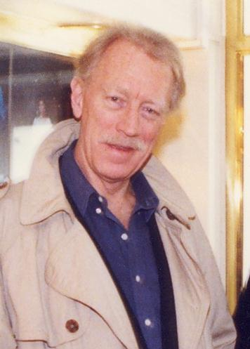 Max von Sydow, as released by image creator Lars Jacob ProdPlace: Kungliga Dramatiska Teatern Dramaten, Nybrogatan 2, Stockholm, Sweden